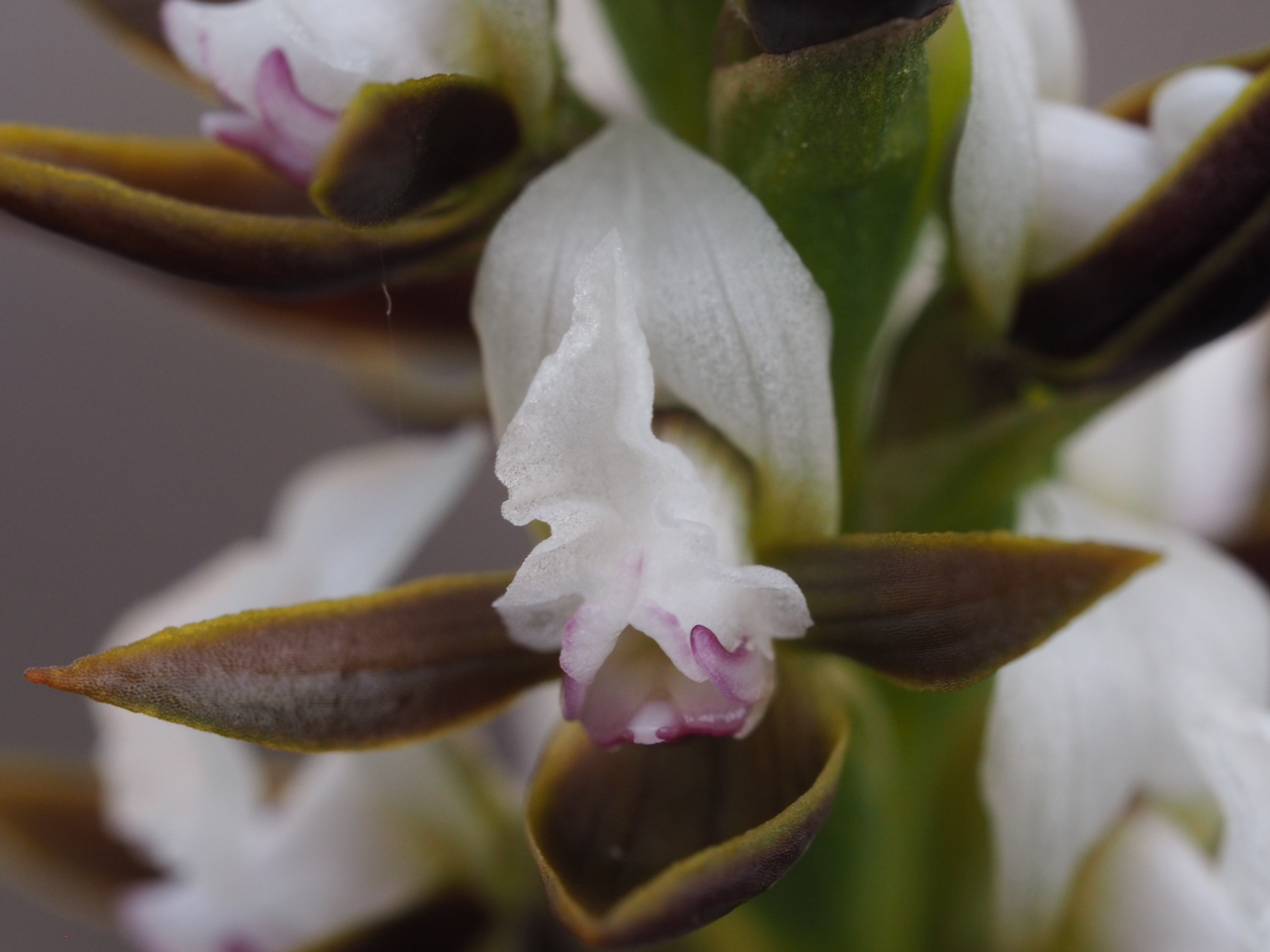 Prasophyllum sargentii growing near Whale Bay Drive in Hopetoun, Western Australia